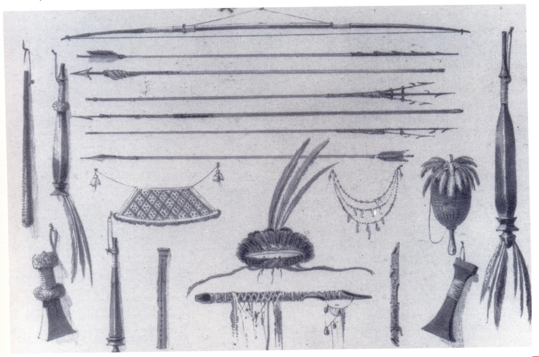 Engraving of Kali'na weapons and tools.